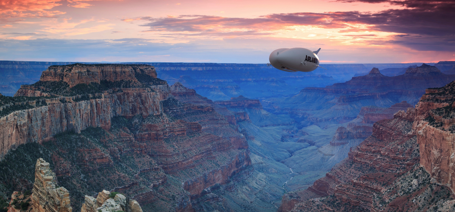 Airlander 10 Grand Canyon CGI